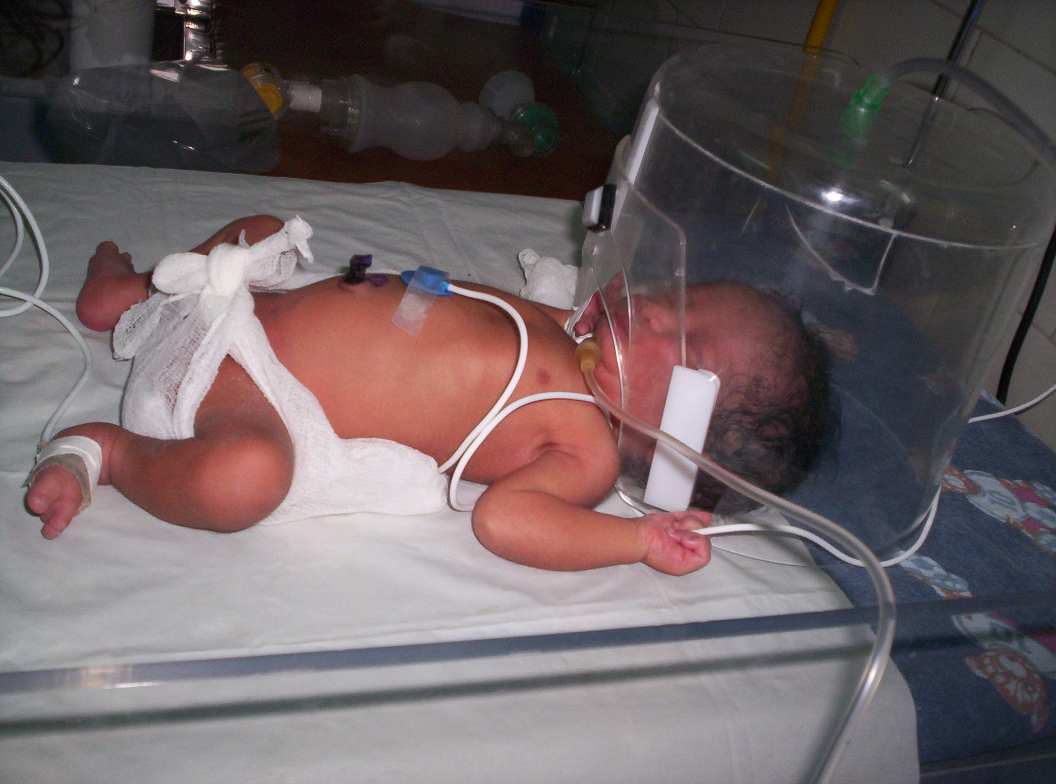 Infant in the neonatal unit of a one-man hospital in the Indian Himalayas.